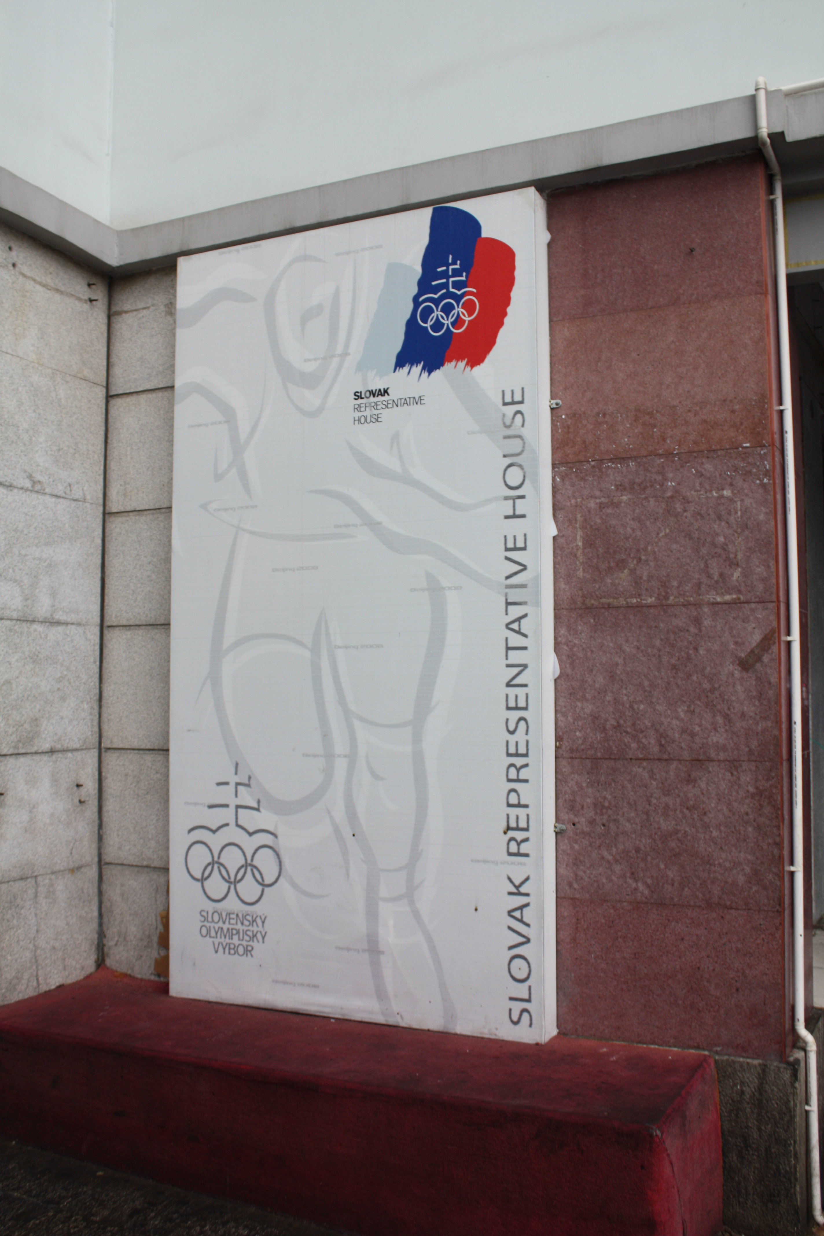 Slovak Representative House of Olympic Games 2008 in Beijing